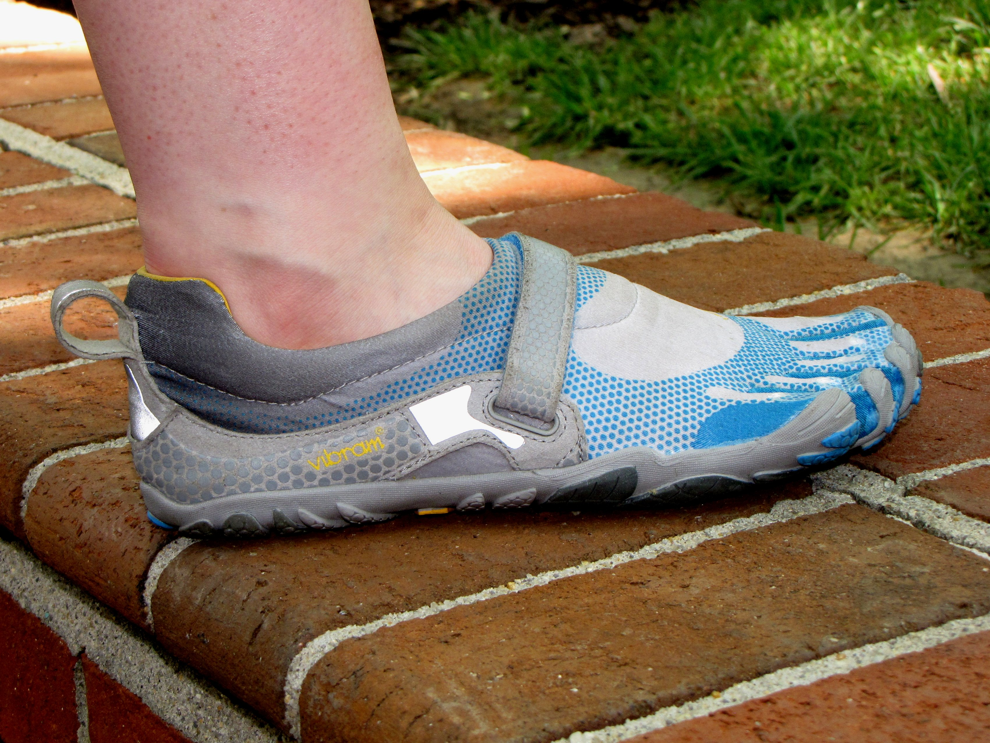 Vibram FiveFingers Bikila shoes, outer side (facing away from other foot).